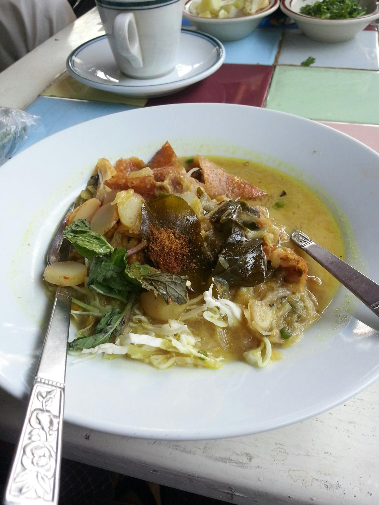 Myanmar Food derived from India. Mixed Samosa Salad